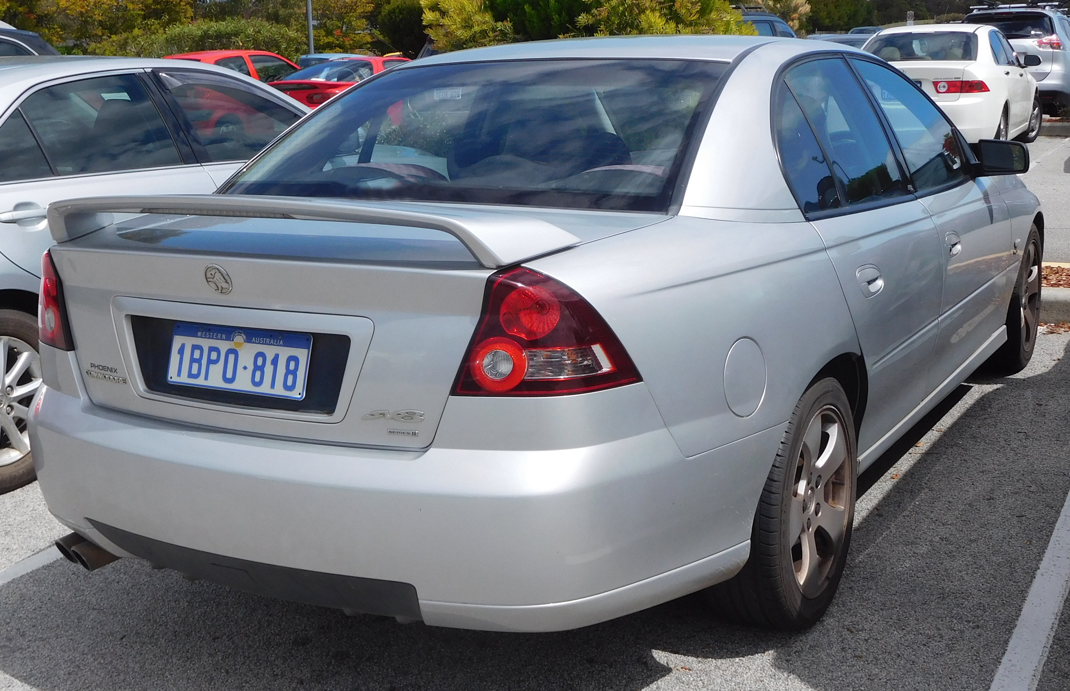 2003 Holden Commodore (VY II) SV8 sedan. Photographed in Innaloo, Western Australia, Australia.